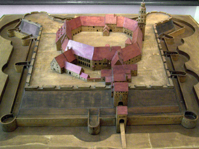 Gotha, Grimmenstein castle, modelling